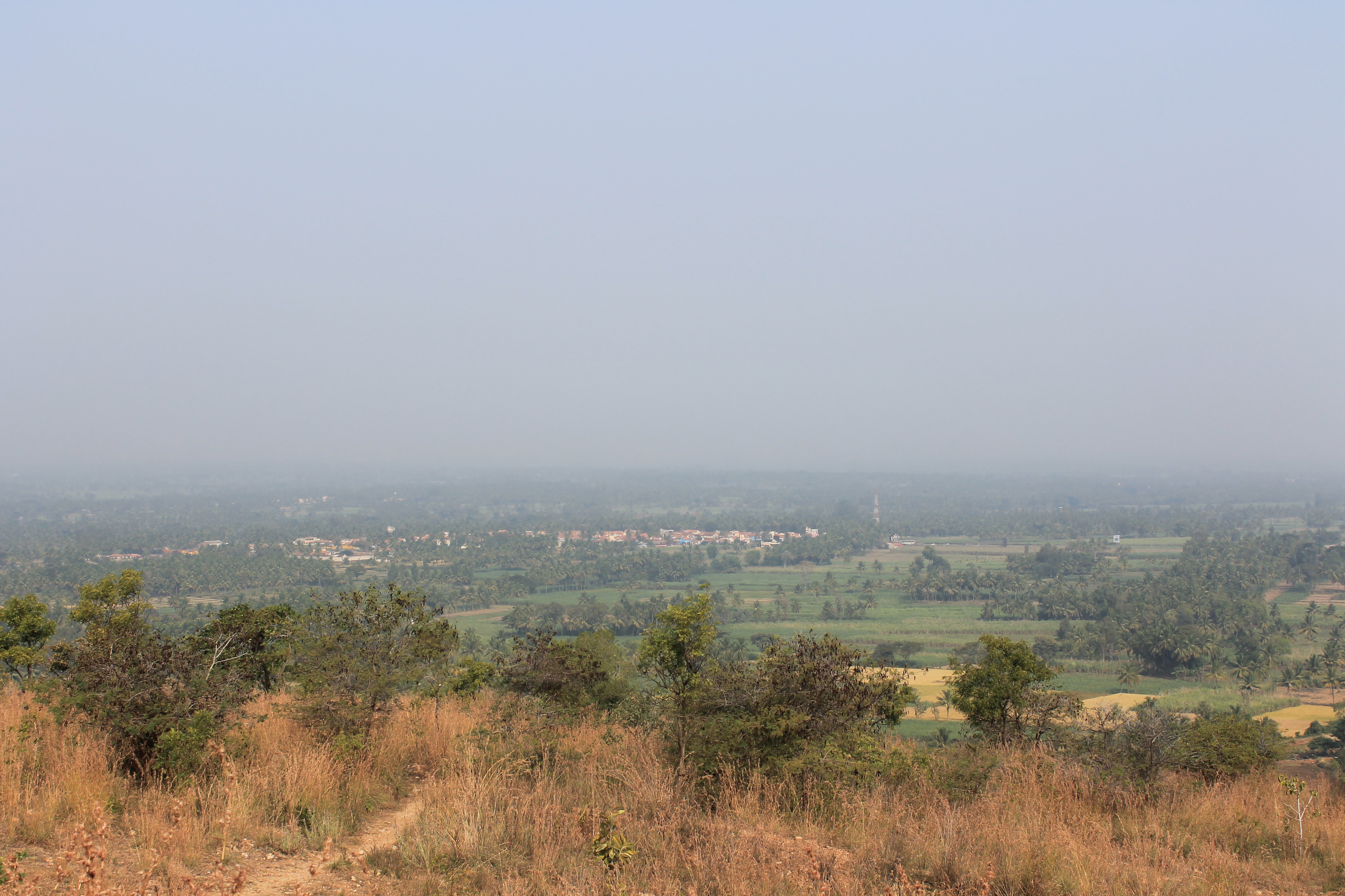 Mysore-Bangalore highway as seen from Karighatta